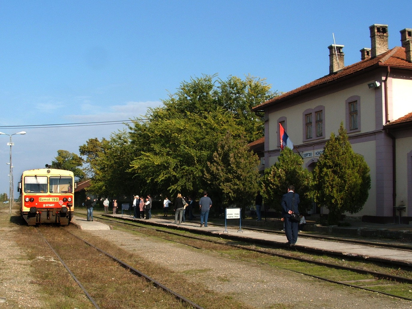 Bzmot DMU in Horgos railway station